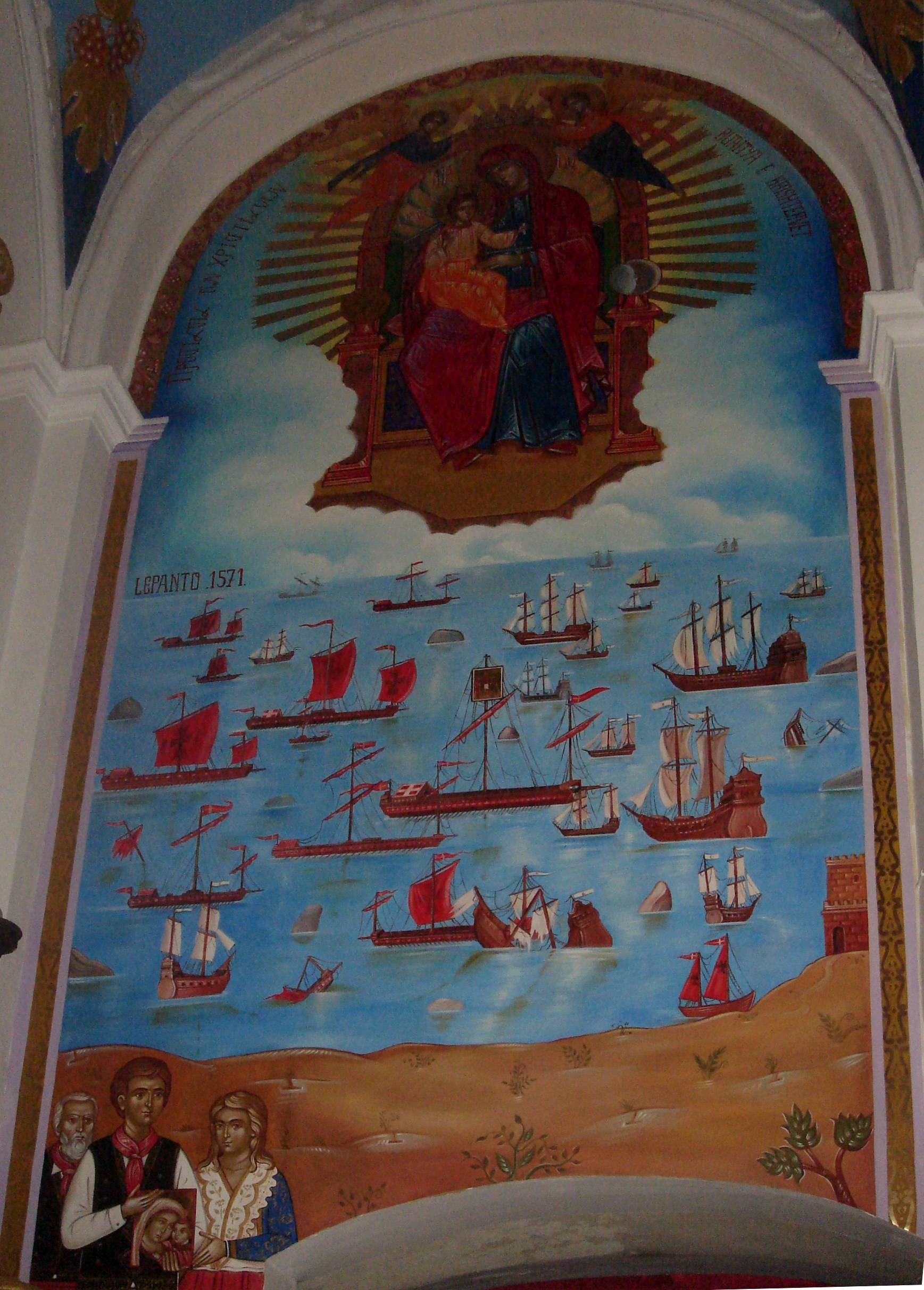 Battle of Lepanto in the Santa Maria Assunta church (Civita, Cosenza, Italy); Byzantine painting